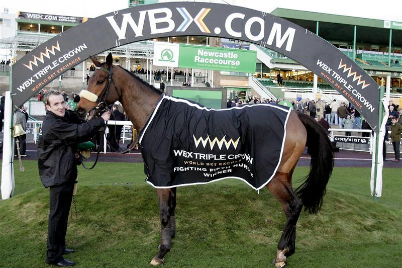 Picture of Harchibald after winning the 2007 Fighting Fifth Hurdle at Newcastle Racecourse.